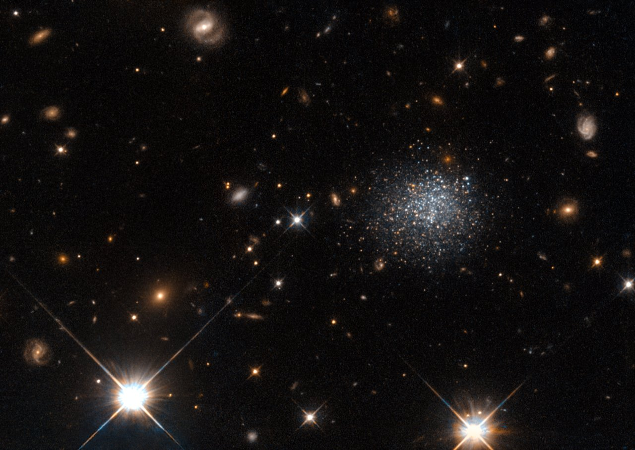 The fuzzy collection of stars seen in this NASA/ESA Hubble Space Telescope image forms an intriguing dwarf galaxy named LEDA 677373, located about 14 million light-years away from us. Dwarf galaxies are small, faint collections of stars and gas. Their diverse properties make them intriguing objects to astronomers, but their small size means that we can only explore those that lie closest to us, within the Local Group, such as LEDA 677373. This particular dwarf galaxy contains a plentiful reservoir of gas from which it could form stars. However, it stubbornly refuses to do so. In a bid to find out why, Hubble imaged the galaxy’s individual stars at different wavelengths, a method that allows astronomers to figure out a star’s age. These observations showed that the galaxy has been around for at least six billion years — plenty of time to form stars. So why has it not done so? Rather than being stubborn, LEDA 677373 seems to have been the unfortunate victim of a cosmic crime. A nearby giant spiral galaxy, Messier 83, seems to be stealing gas from the dwarf galaxy, stopping new stars from being born.